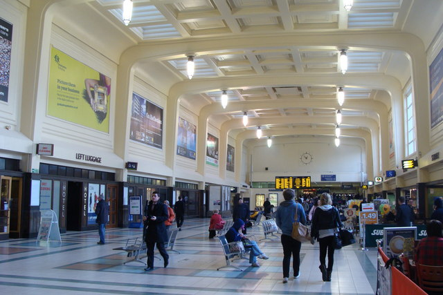 Leeds railway station - North Concourse, Leeds, West Yorkshire, England. This listed Art Deco concourse was recently restored.